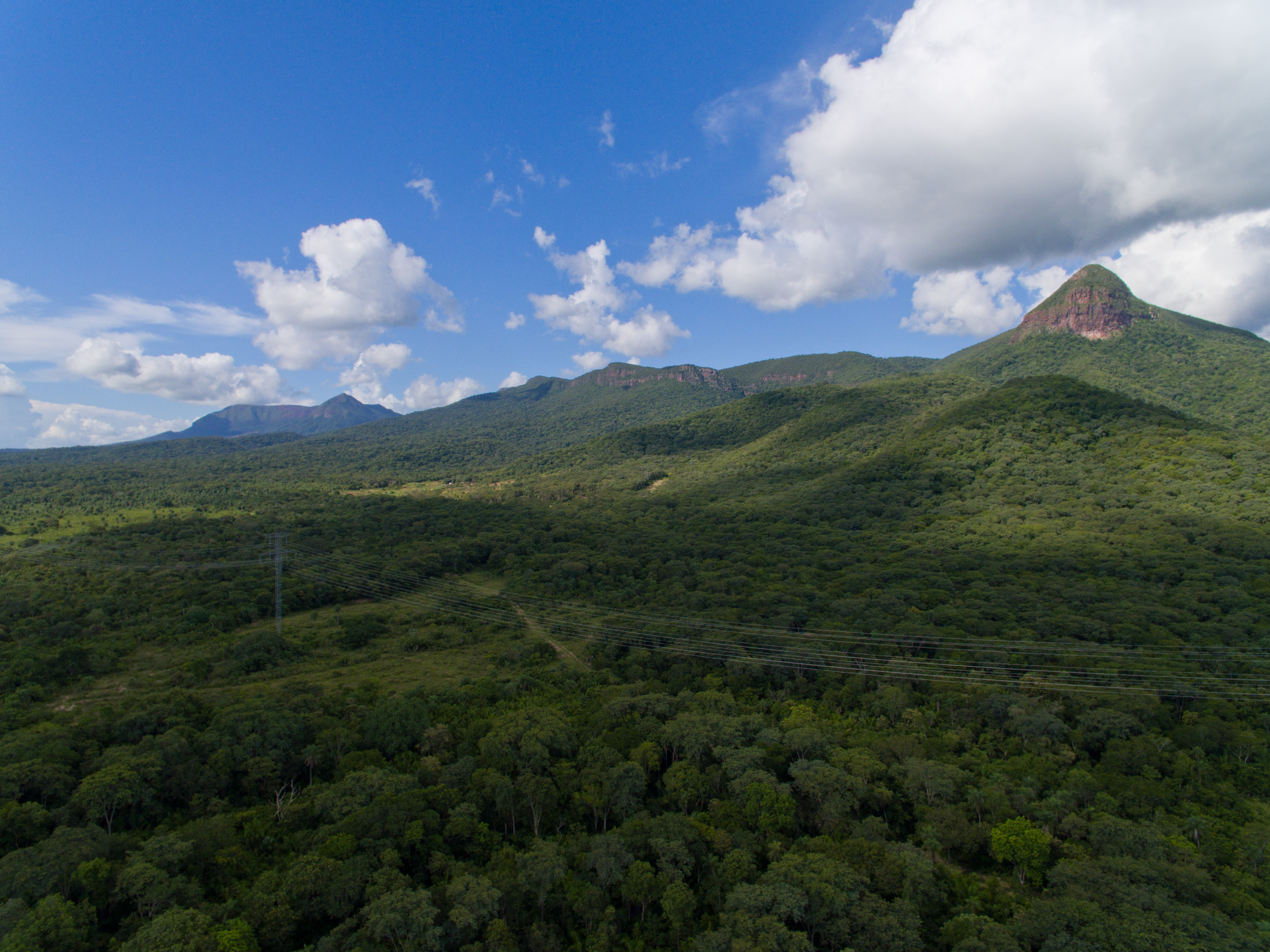 Aerial view of Morro Urucum, and other iron-rich hills outside Corumbá, Mato Grosso do Sul, Brazil.